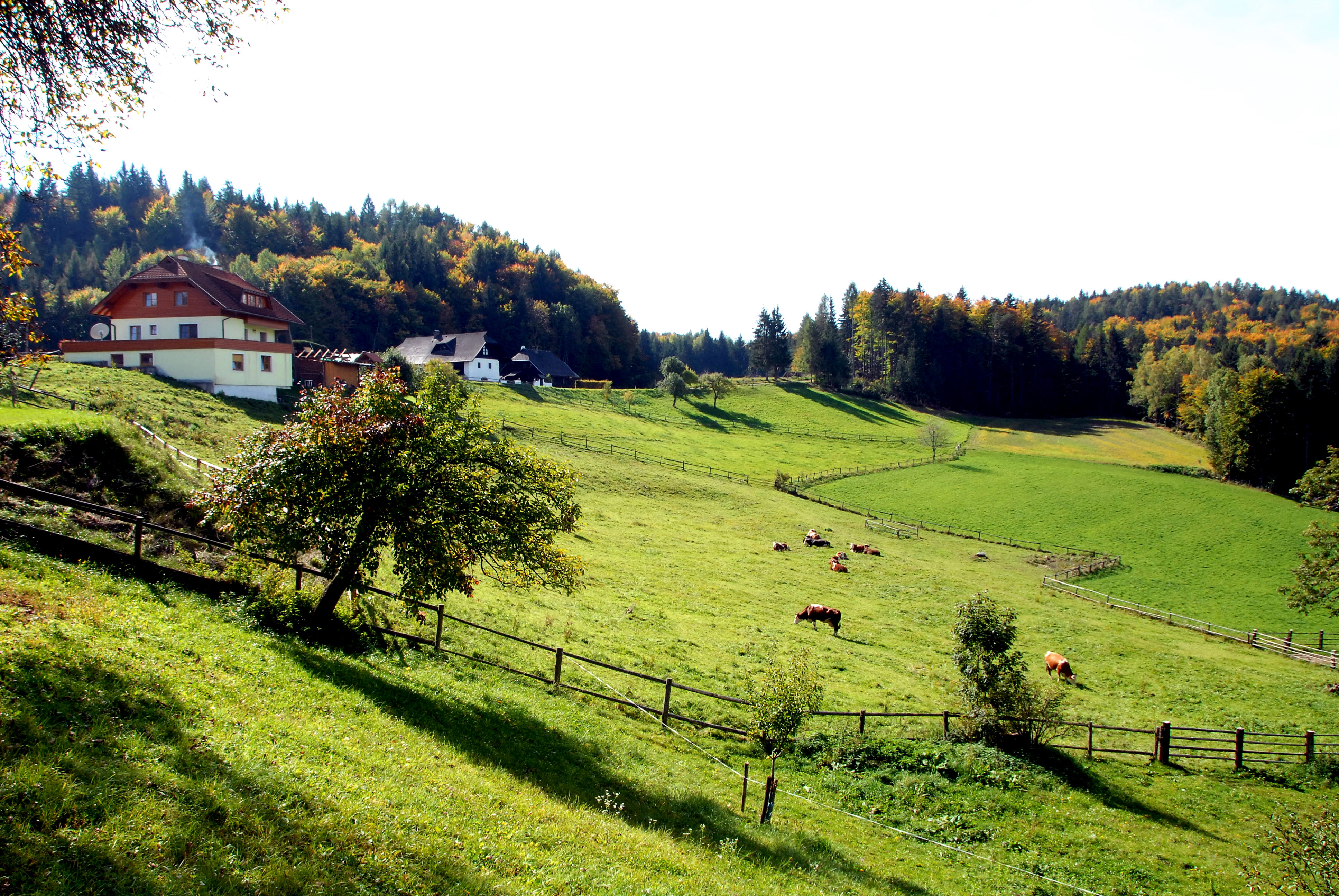 Landscape at Skarbin in the community Grafenstein, district Klagenfurt Land, Carinthia, Austria